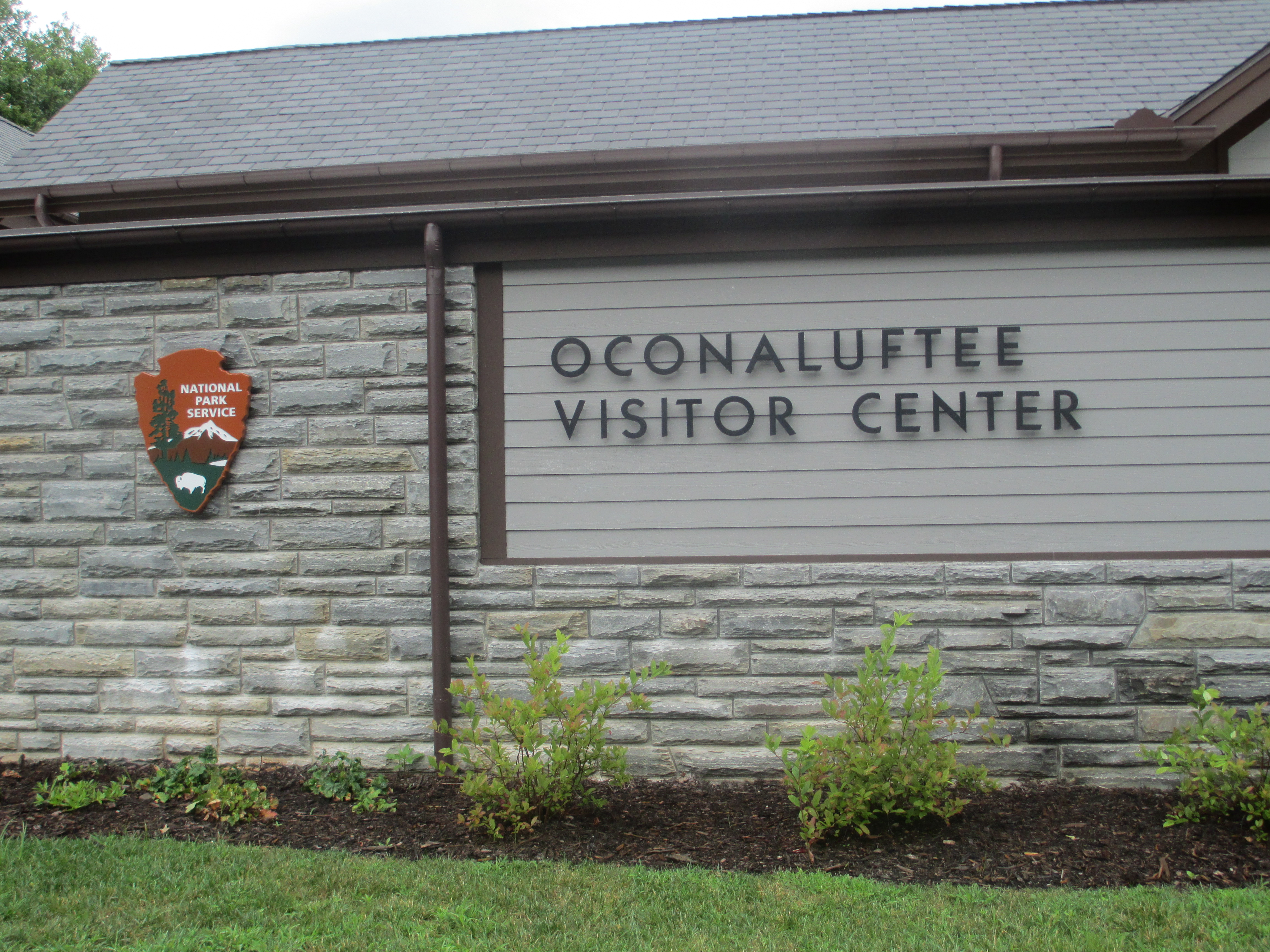 I took photo of Oconaluftee Visitor Center in Great Smoky Mountains with Canon camera.